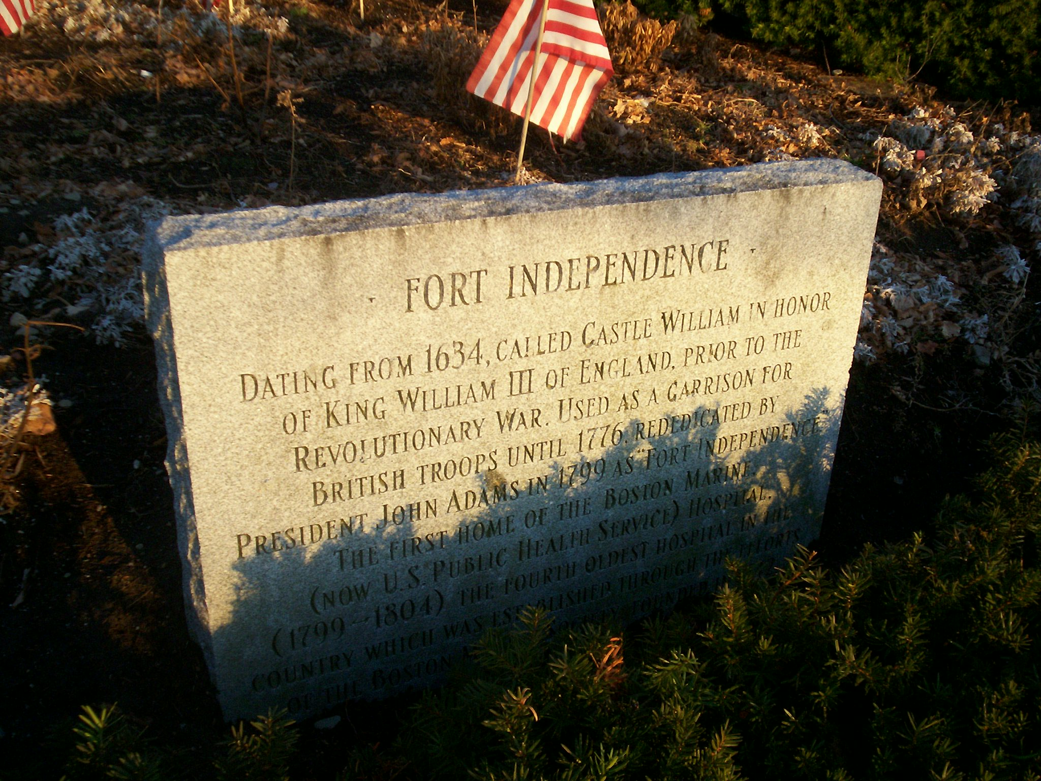 Sign at Fort Independence (Castle Island), Boston, Massachusetts.